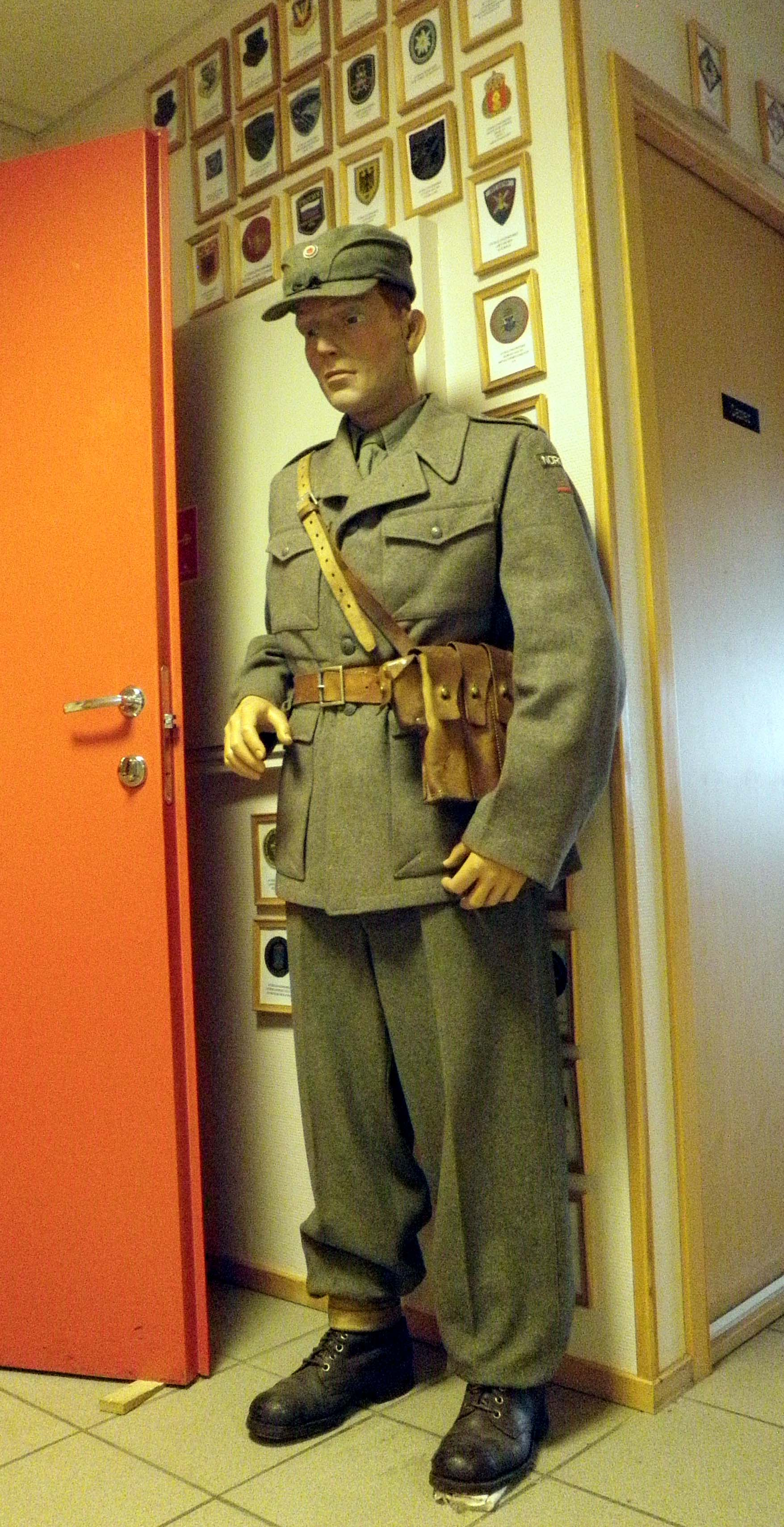 Museum figure with uniform worn by Norwegian police troops in Sweden during World War II at Troms Forsvarsmuseum (Troms Armed Forces Museum) in Setermoen, Troms, Norway.